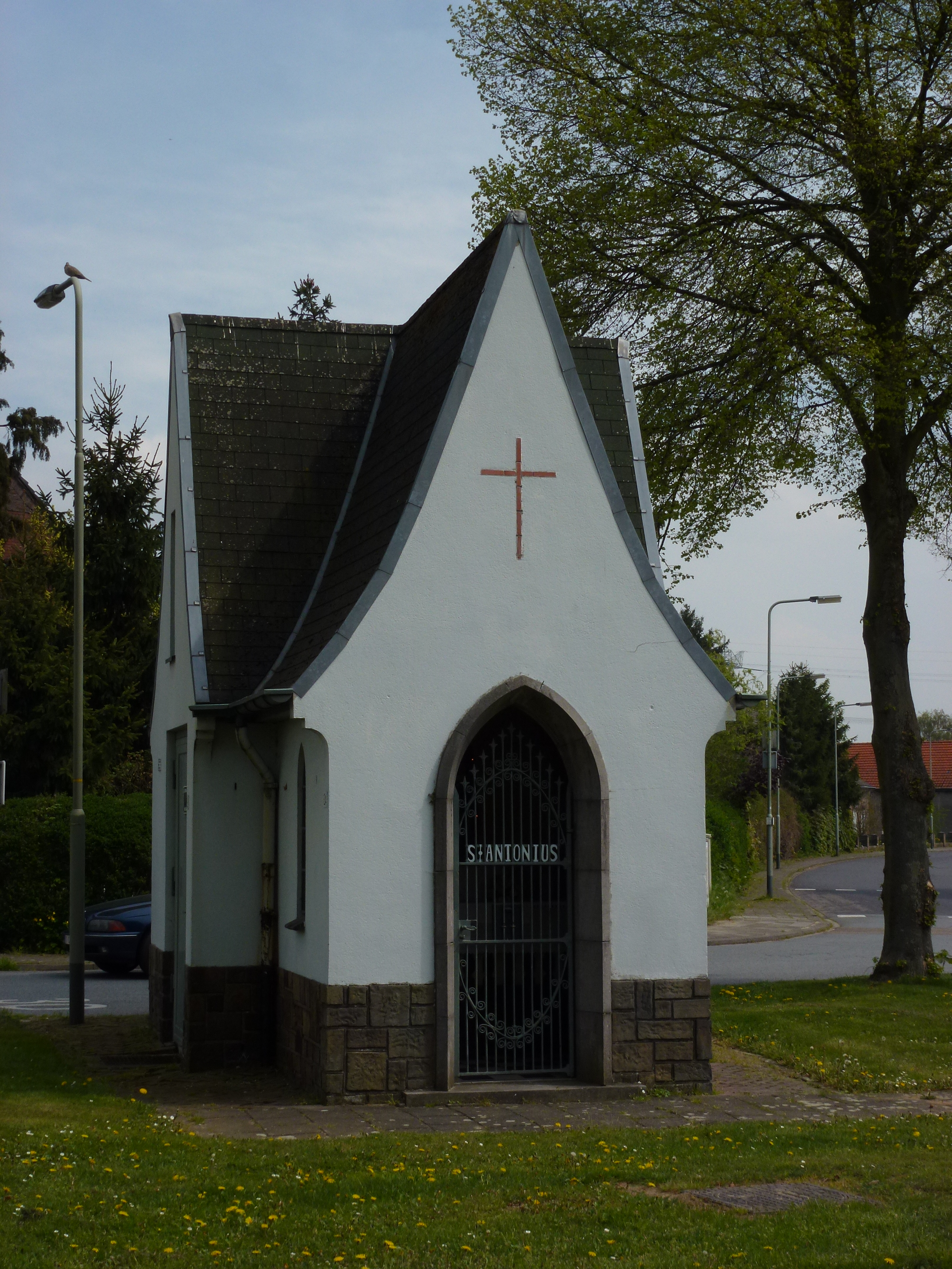 Roosteren (Echt-Susteren) St.Antoniuskapel bij kerk, deel uitmakend van trafohuisje